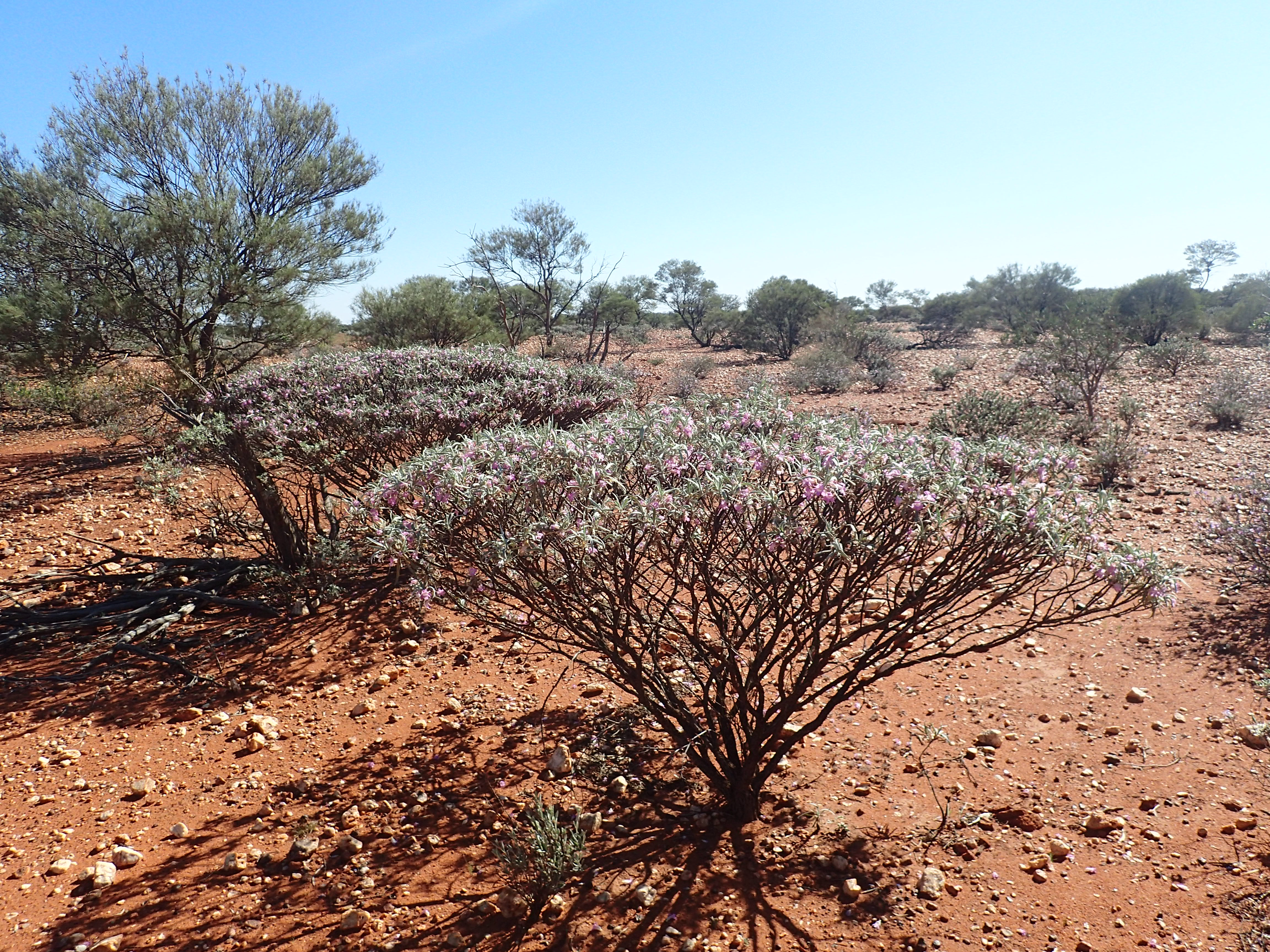 Eremophila spectabilis brevis growing 16.3 west along Neds Creek Road